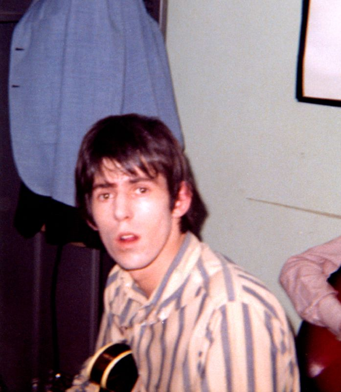 Keith Richards, Statesboro, Georgia, May 4, 1965 Keith Richards in the locker room of the gym of Georgia Southern College. Taken prior to the The Rolling Stones performance there on May 4, 1965. Photo by Kevin Delaney with a 110 Kodak Instamatic.